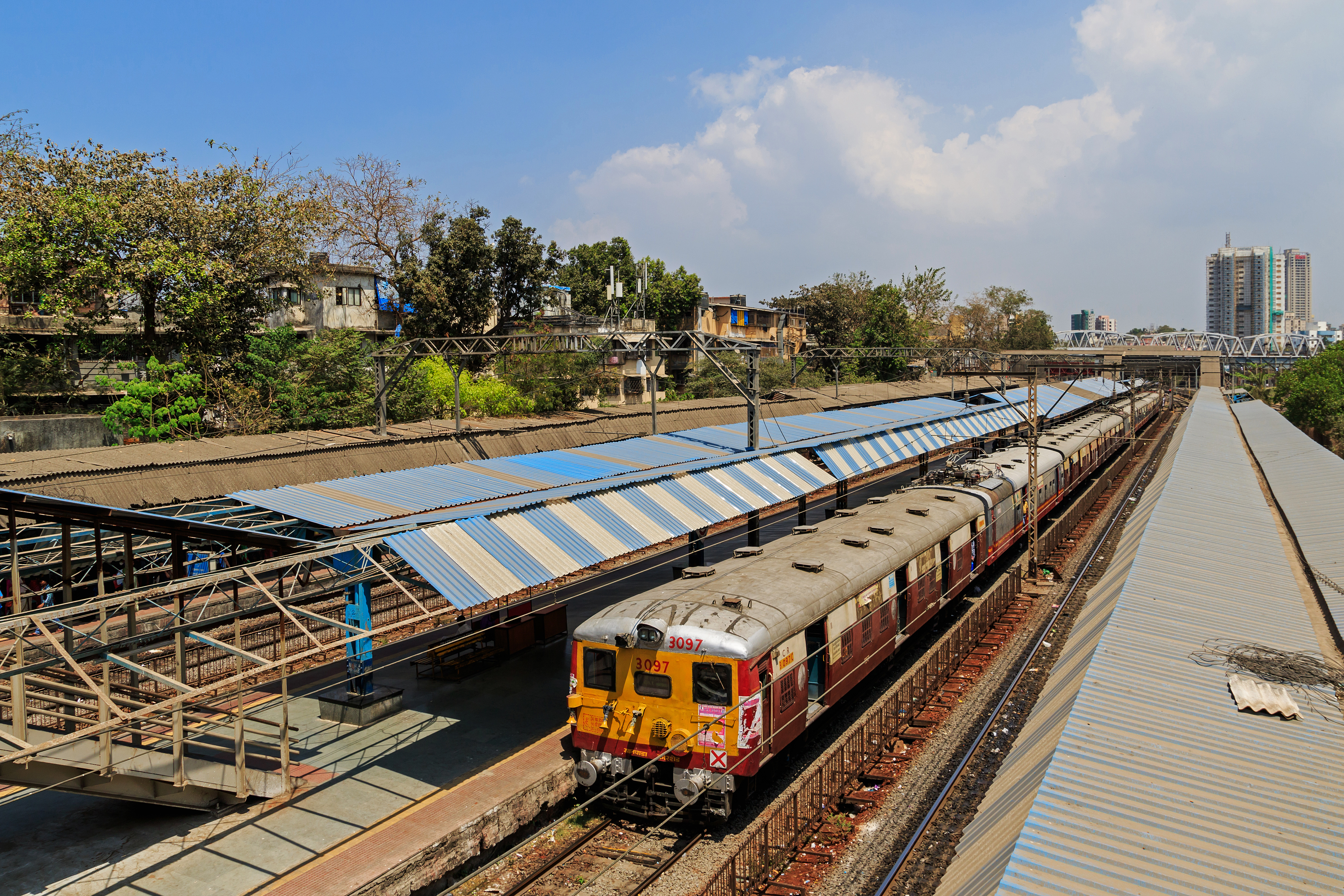 Vadala Road station of suburban railway in Mumbai, India